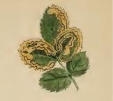 Stainton’s Natural History of the Tineina (1855–1873): Stigmella centifoliella mined rose leaf